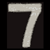 Route number signage that appeared on the front of BMT D-type (Triplex) cars from 1927 to 1964 on the New York Subway. From c1965 photostat. This number was used on trains of the Brighton-Franklin Line and Franklin Avenue Shuttle (7). Category:New York City Subway images Captioned As {}